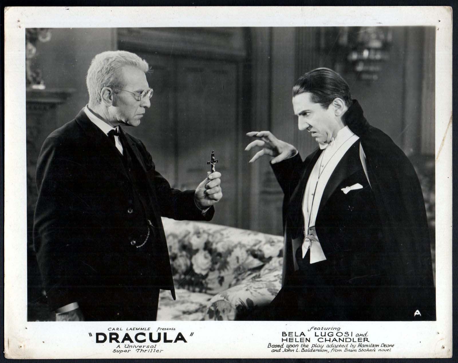 lobby card for the 1931 film Dracula, featuring Bela Lugosi and Edward Van Sloan. This image is assumed to be in the public domain, as no copyright notice is in evidence, see details below. The item has no copyright markings on it as can be seen in the links above and in the original uploaded copy. At bottom right is Litho in USA.